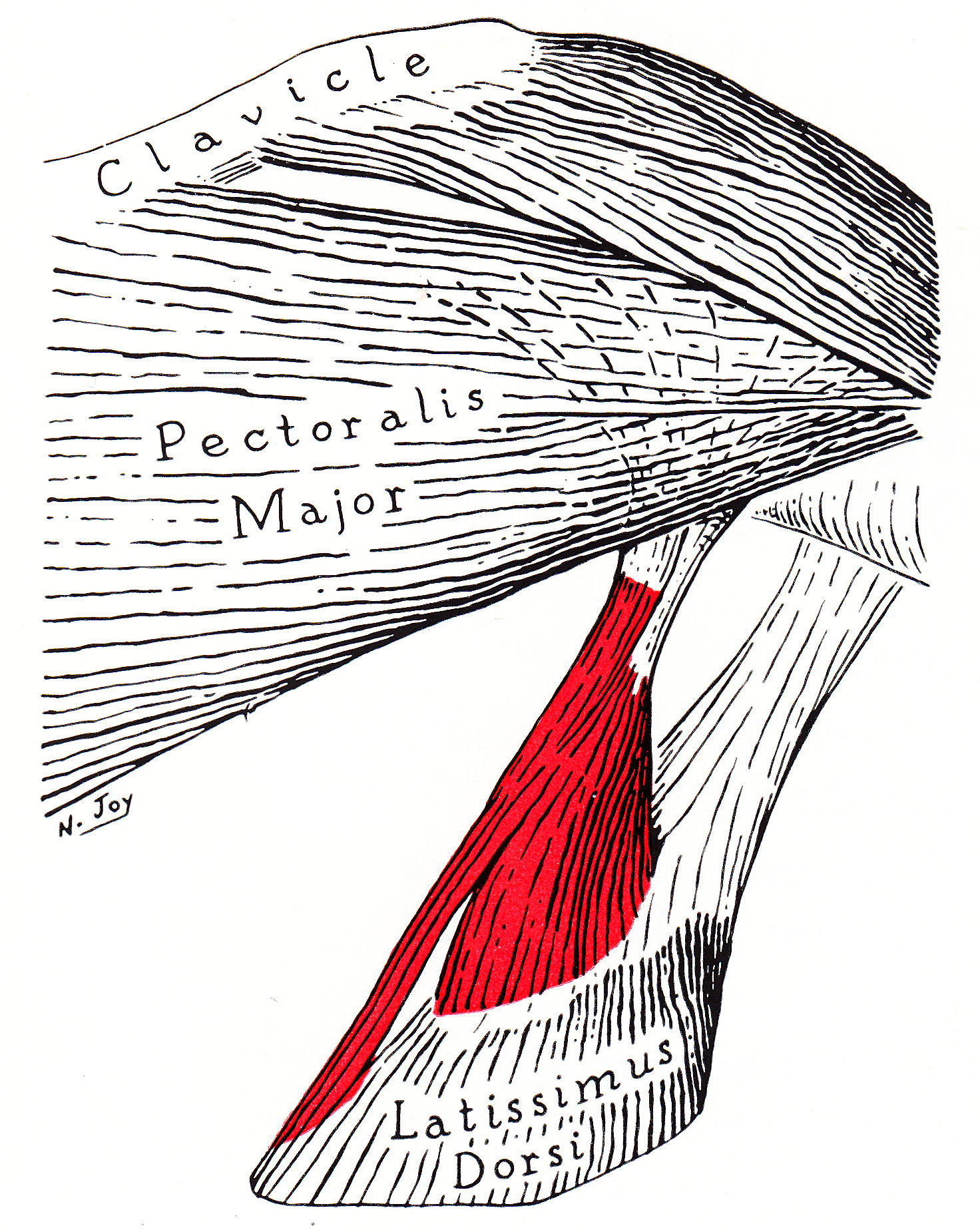 An anatomical illustration from An atlas of anatomy/by regions 1962